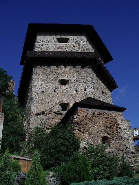 The castle of Fiľakovo, Slovakia